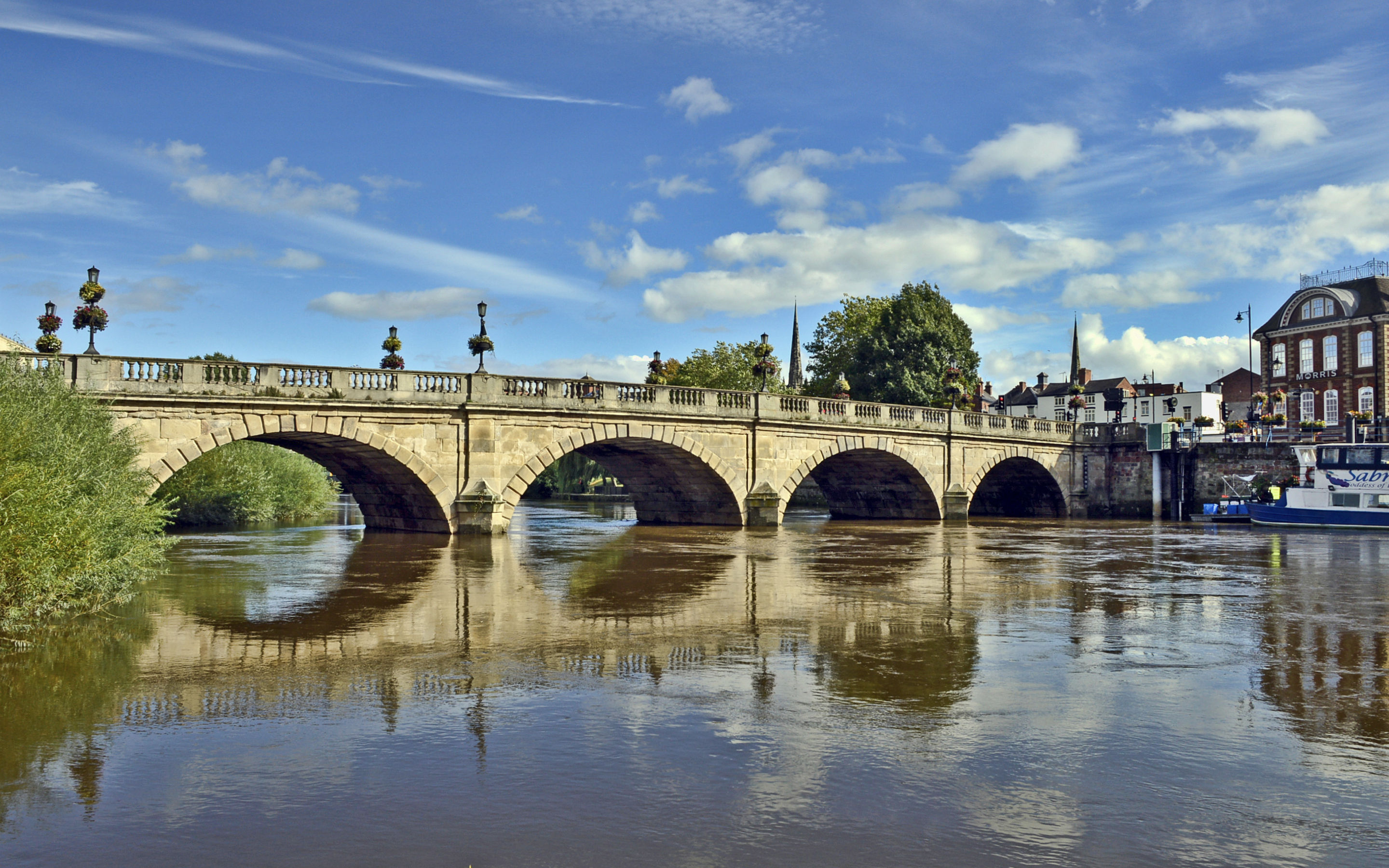 The Welsh Bridge, Shrewsbury, Shropshire